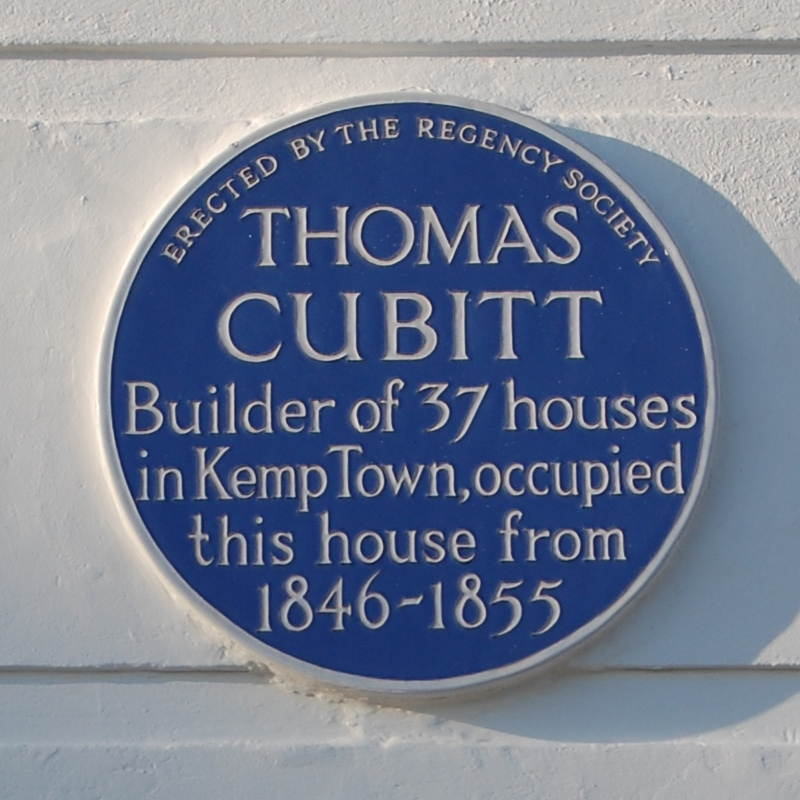 Blue plaque on Thomas Cubitt's house at 13 Lewes Crescent, Kemp Town, Brighton, City of Brighton and Hove, England.